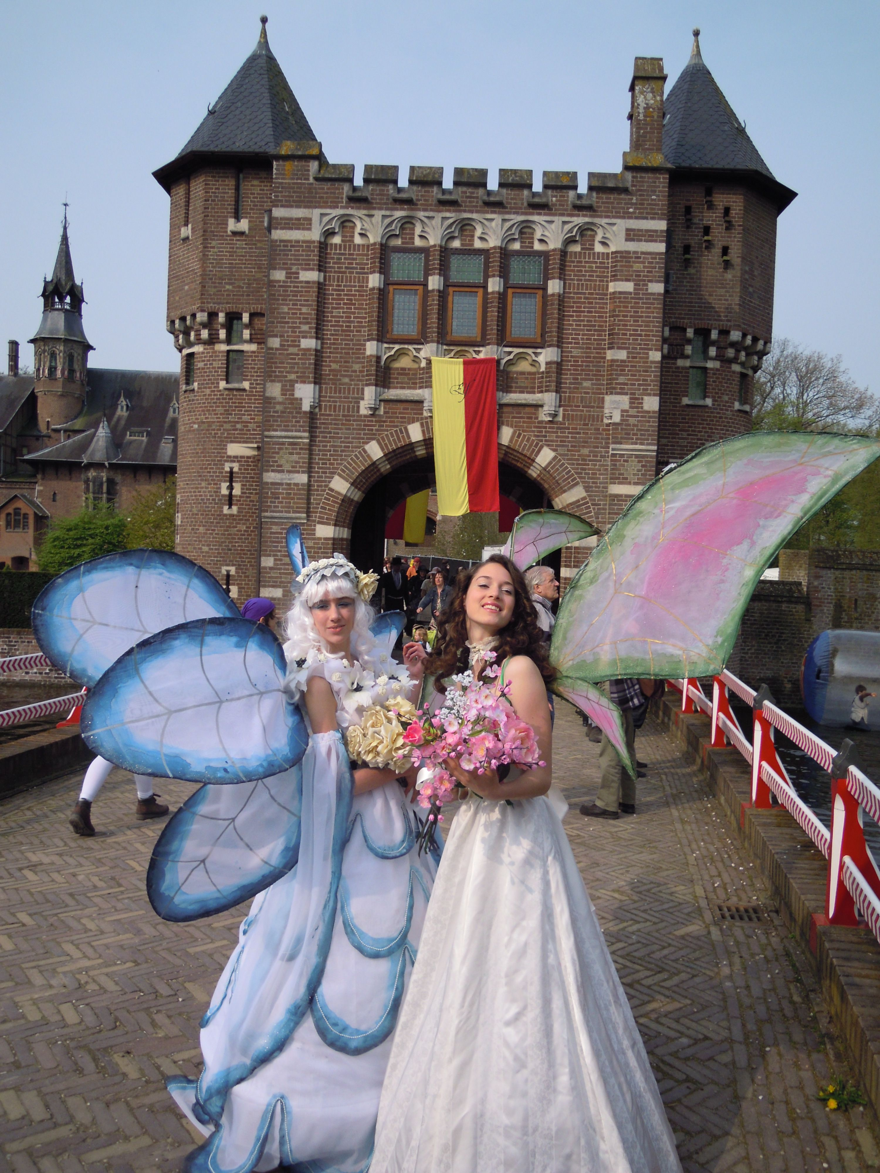 Fairies at the Elf Fantasy Fair in Haarzuilens, The Netherlands on April 16, 2011